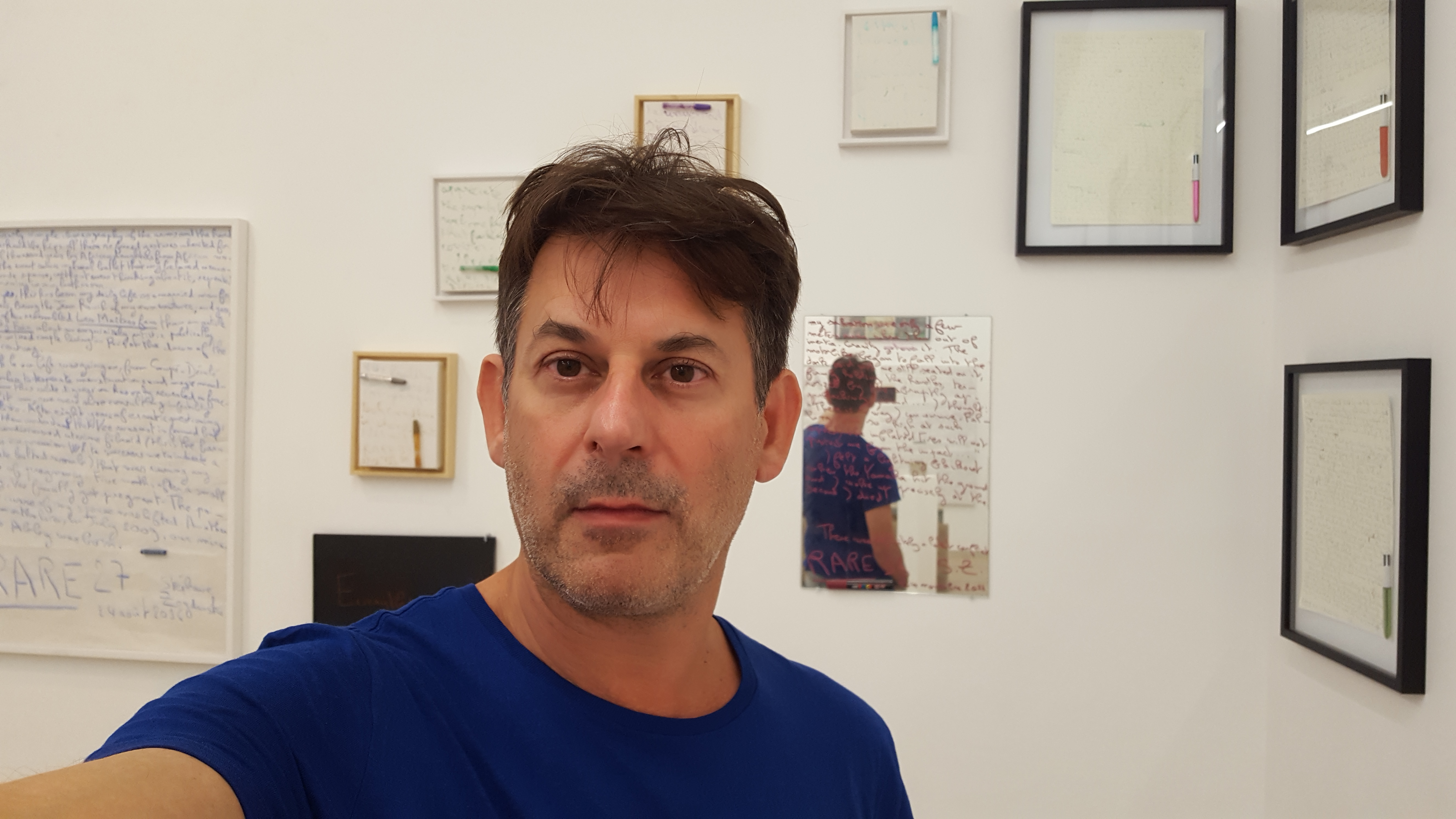 Contemporary Artist Stéphane Zagdanski in front of his works